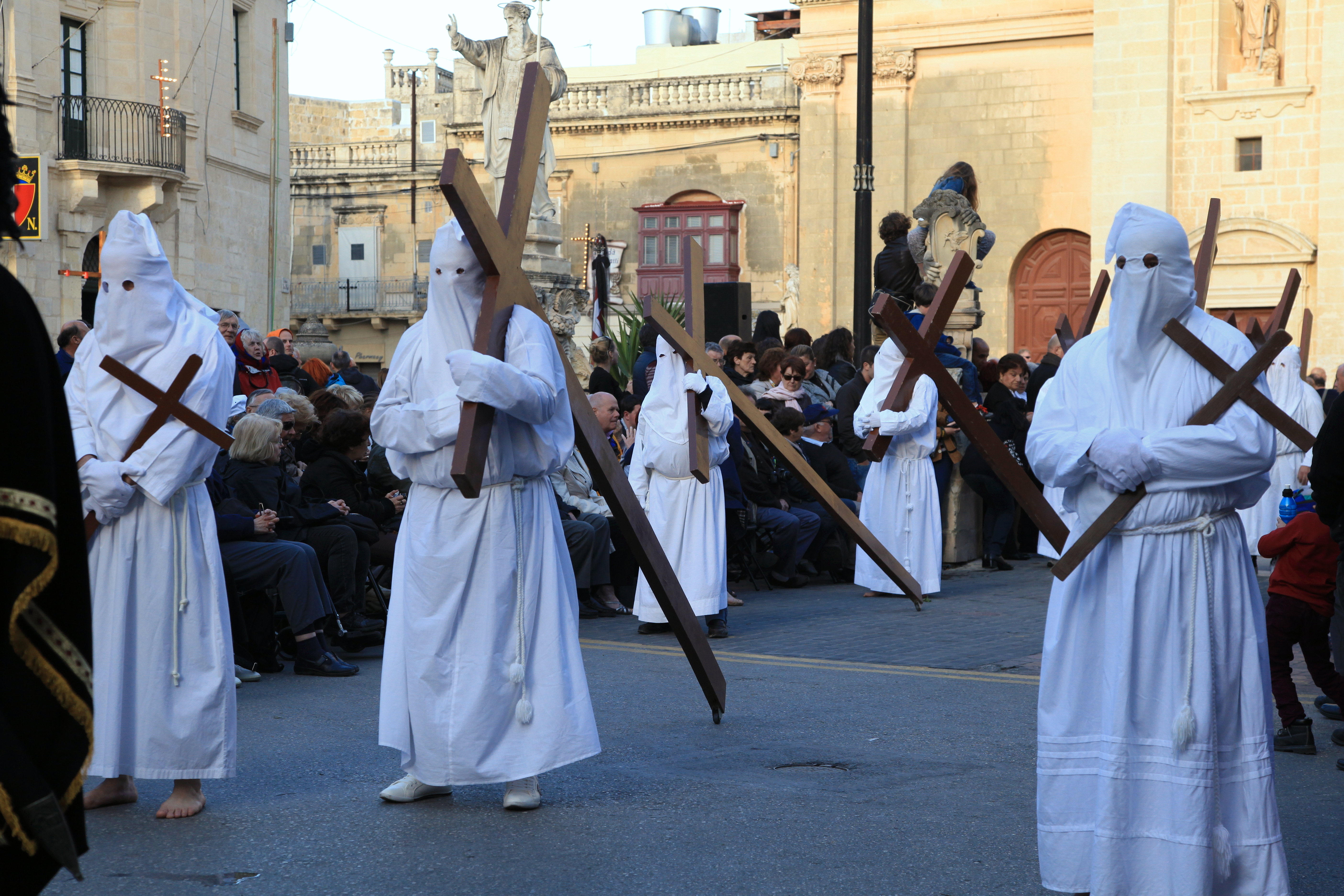 2014 Good Friday procession, Misraħ San Filep in Żebbuġ, Malta